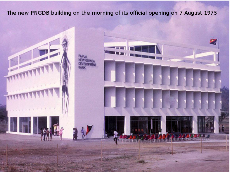 This image is of the Papua New Guinea Development Bank building on its official opening day of 7 August 1975